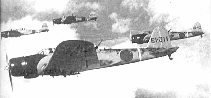 Nakajima B5N2 torpedo planes from Shōkaku. Note the single white stripe at the rear end of fuselage, which was Shōkaku identifier. The first letter of the tail code indicates Carrier Division 5 (or possibly Carrier Division 1 if after the reorganization following the Battle of Midway).